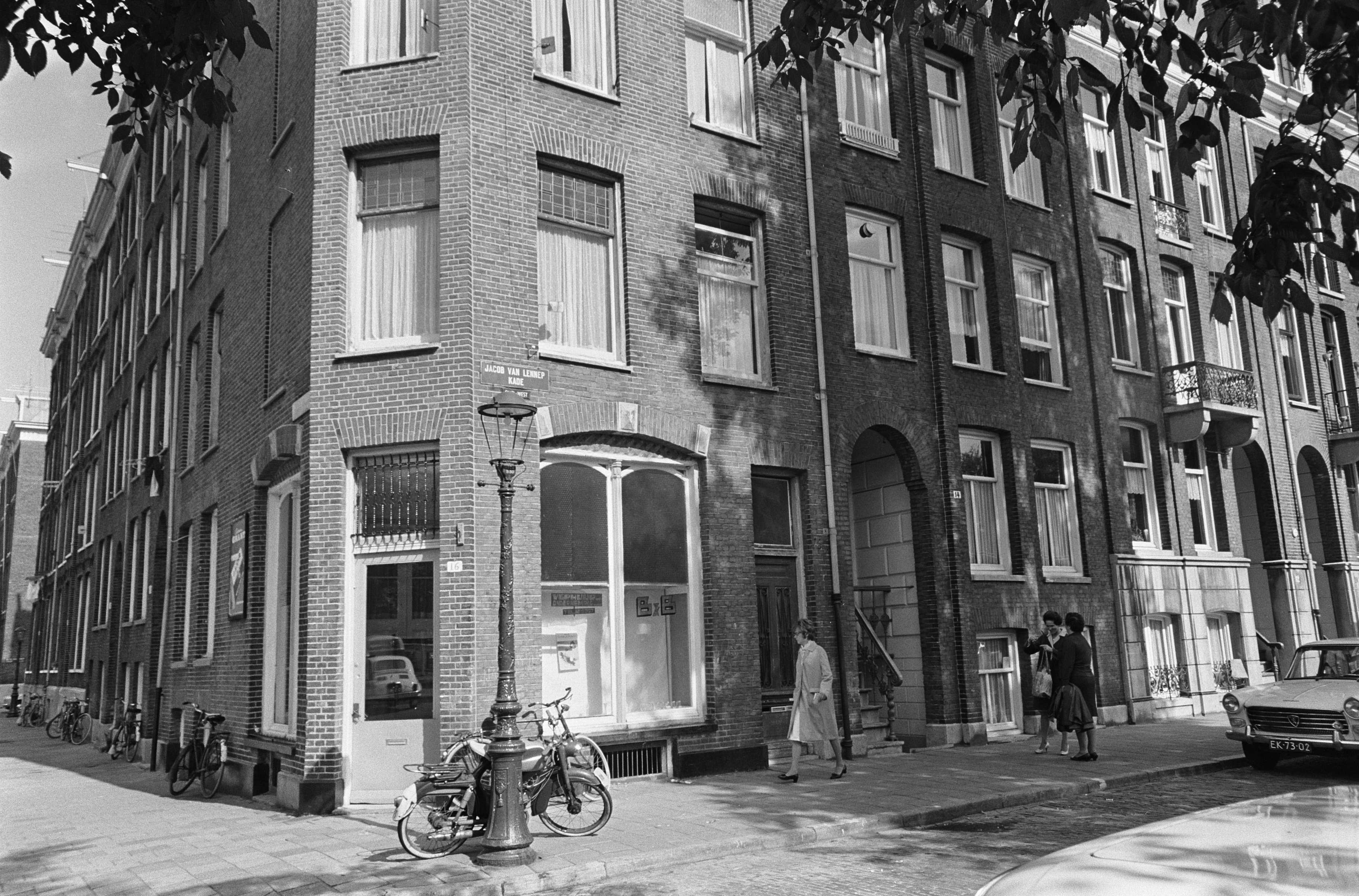 Van Lennepkade 16, Amsterdam (the Netherlands), birthplace of Hendrik Frensch Verwoerd in 1901. (Photo 1966)